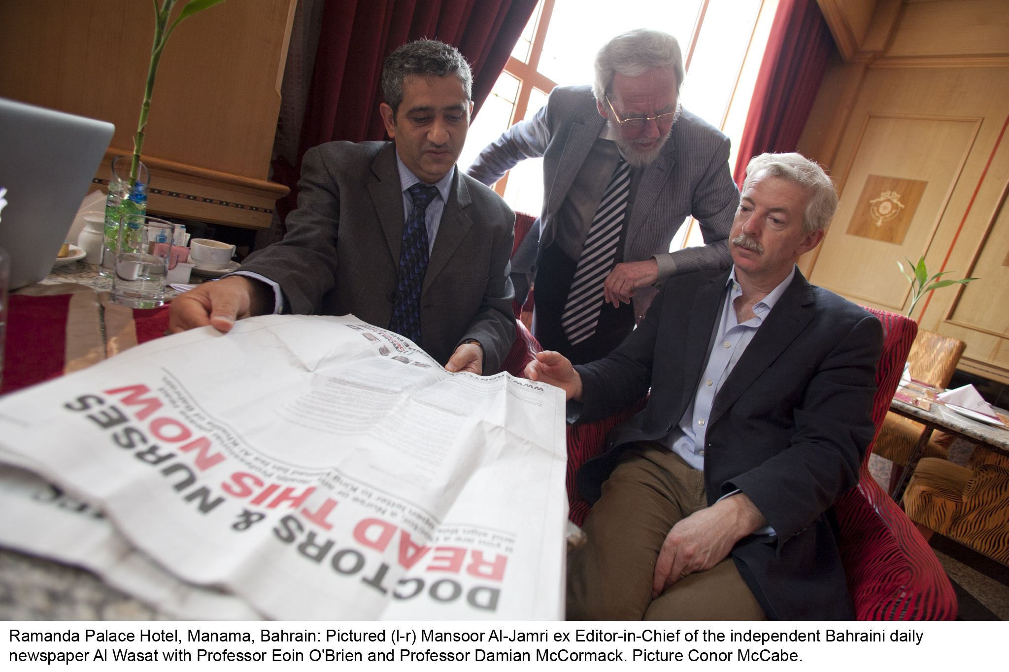 Ramada Palace Hotel, Manama, Bahrain: Pictured (l-r) Mansoor Al-Jamri ex Editor-in-Chief of the independent Bahraini daily newspaper Al Wasat with Professor Eoin O'Brien and Professor Damian McCormack.